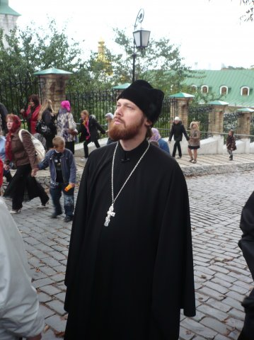 Protoierey Georgiy Ryabykh